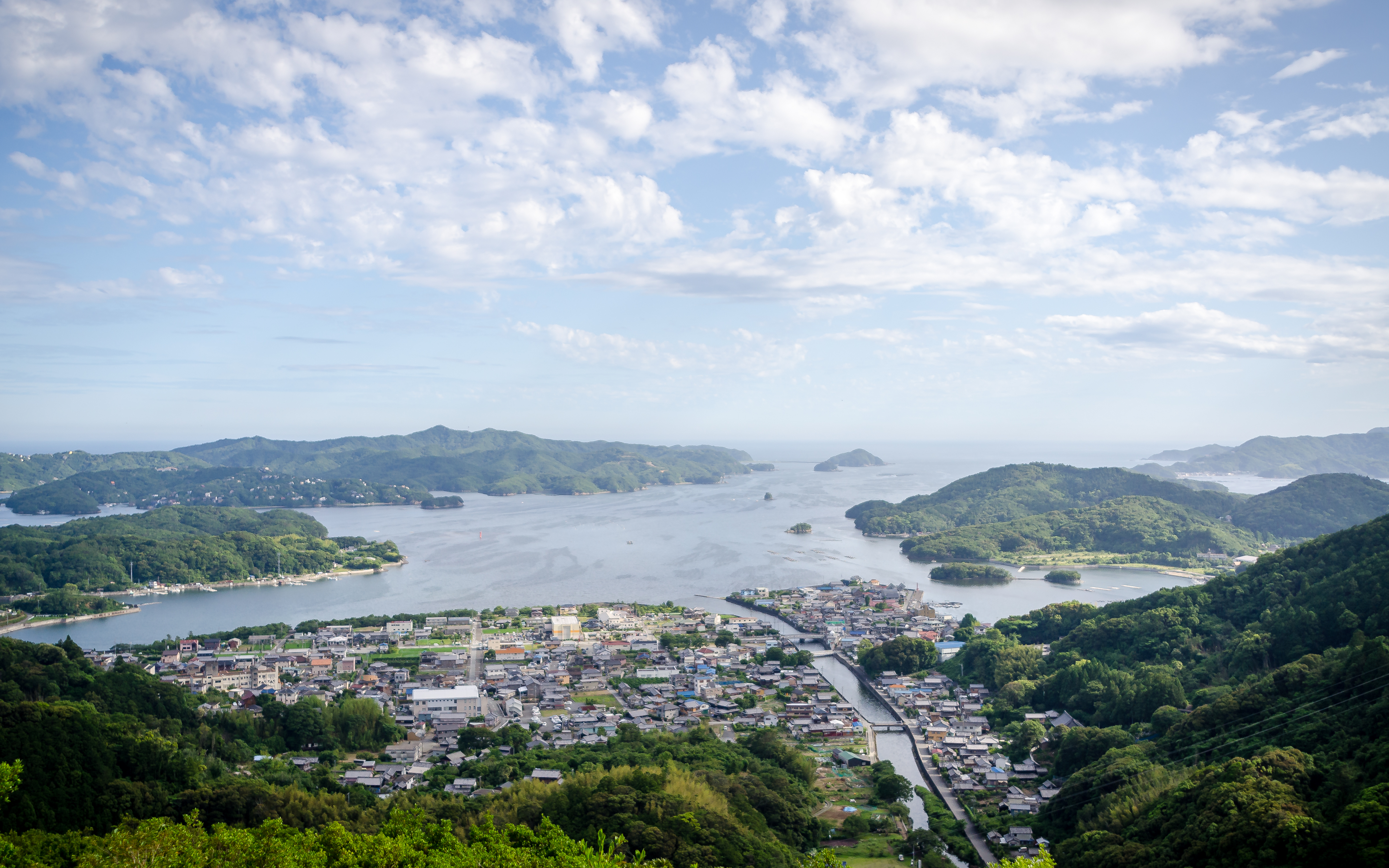 Gokasho-Ura and Gokasho Bay in Minamise, Japan. Taken from Mount Gokasho-Sengen.